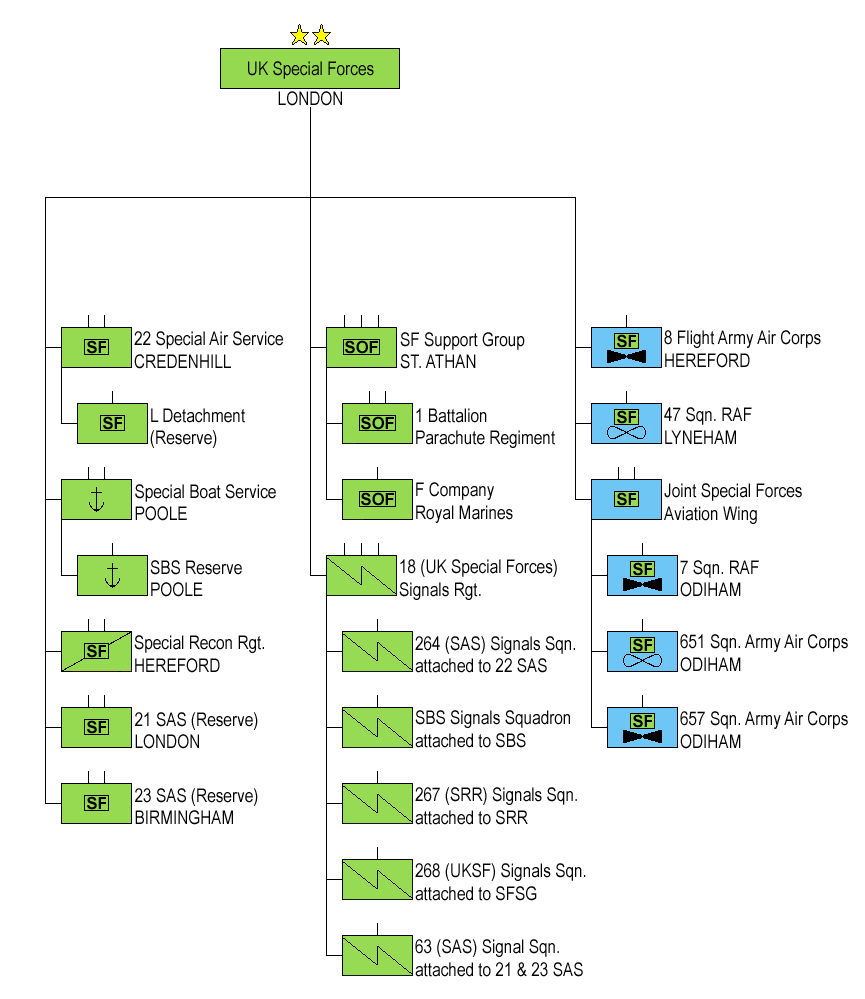 United Kingdom Special Forces Structure